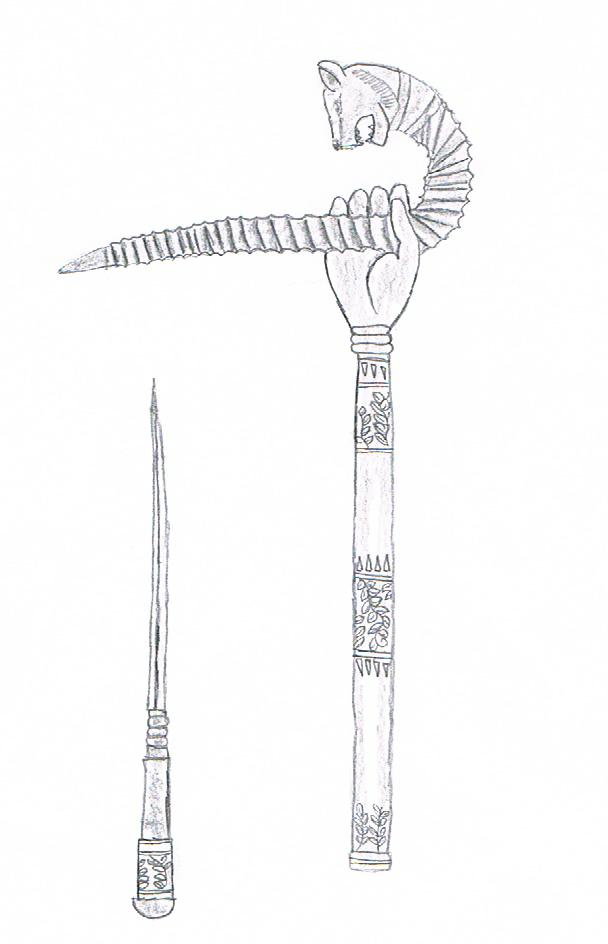 Bairagi/Fakir's Crutch